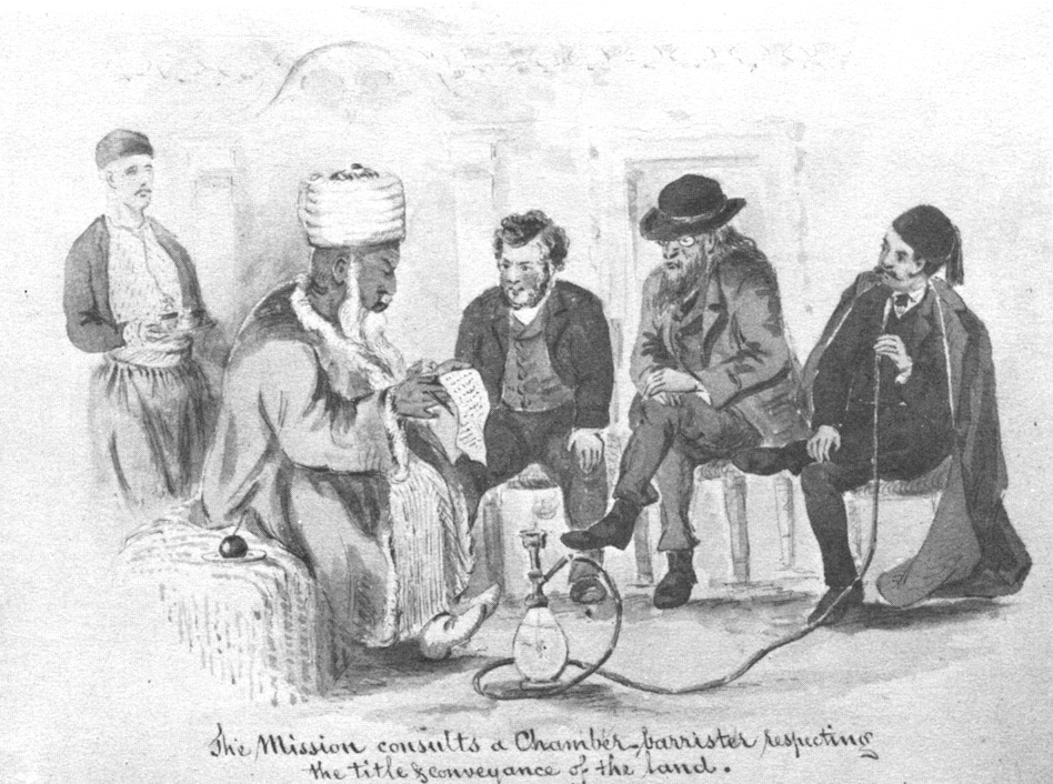 Drawing from Theophilus Waldmeier (1832-1915): encounter in Beirut in 1876, The Mission consults a Chamber-barrister respecting the title & conveyance of the land. Waldmeier was chief of the Syrian Mission of the Quakers, he represents himself with beard and hat.